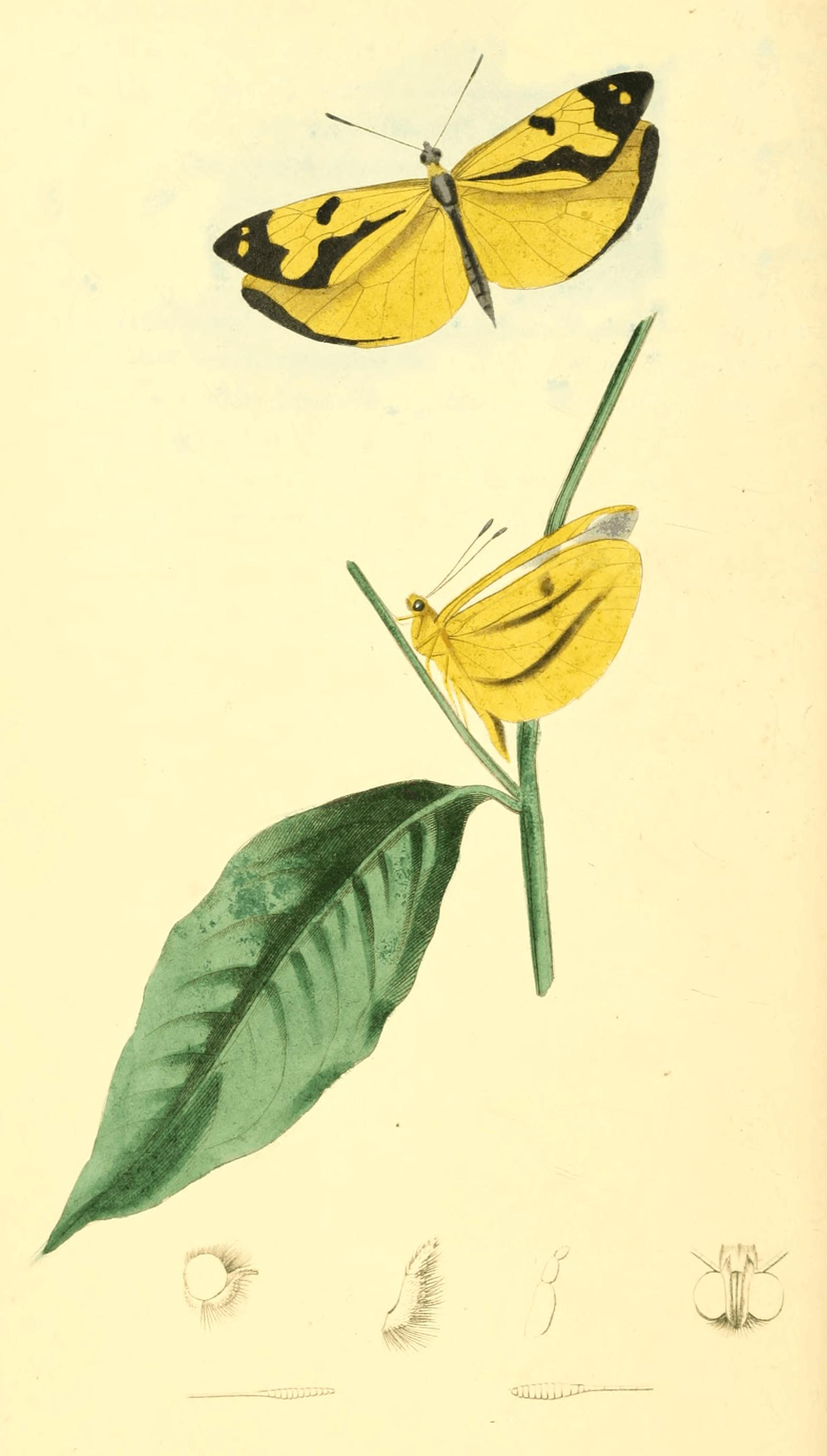 Plate 15. Licinia Melite. Modern accepted name (2012) is Enantia melite[1] (Swainson gives synonym Papilio Melite Fab.).